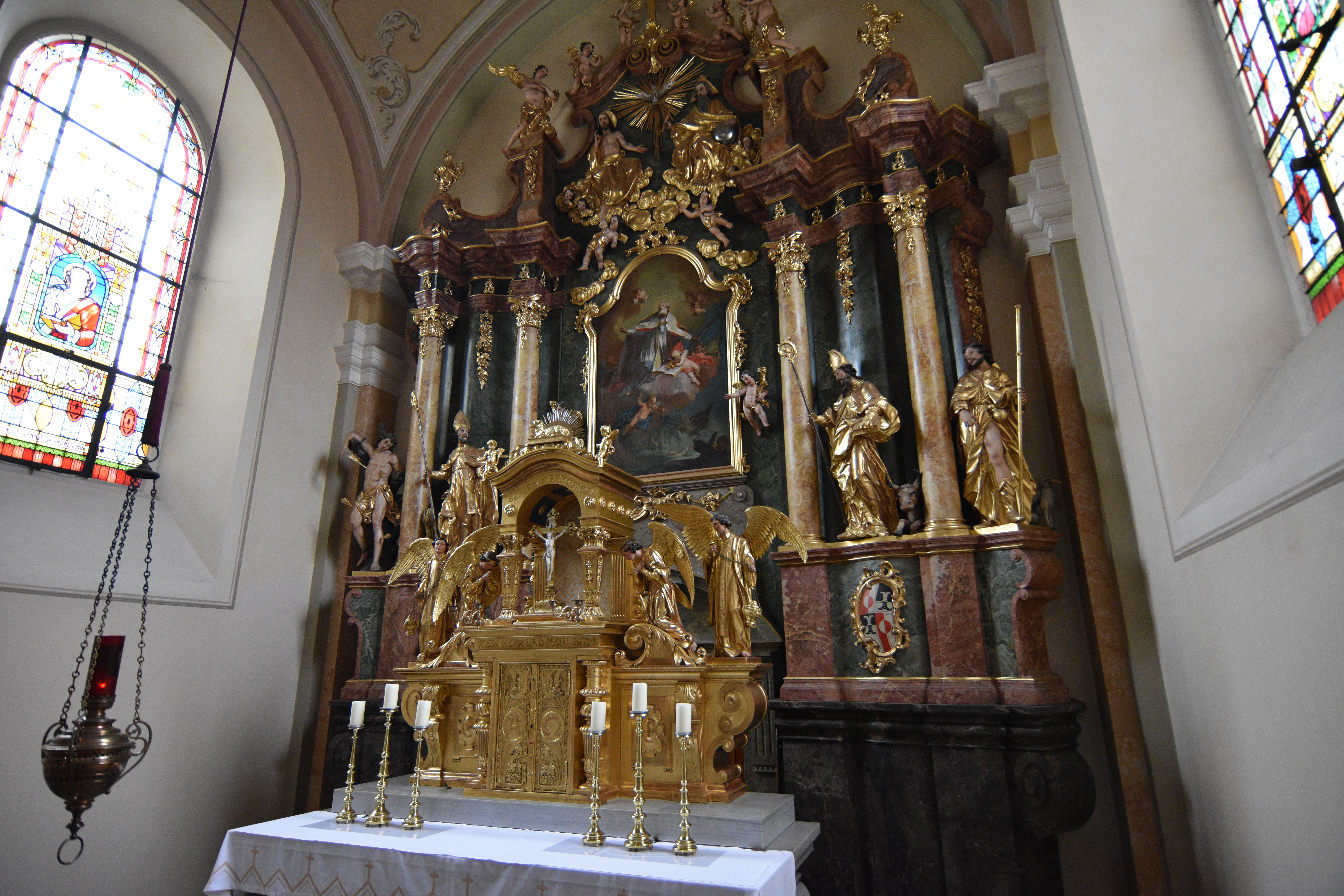 Church hl. Nikolaus (Wundschuh) - Interior